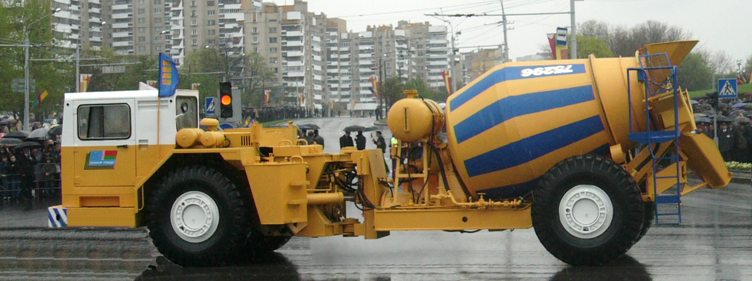 Belaz 75296 on Victory Day parade in Minsk